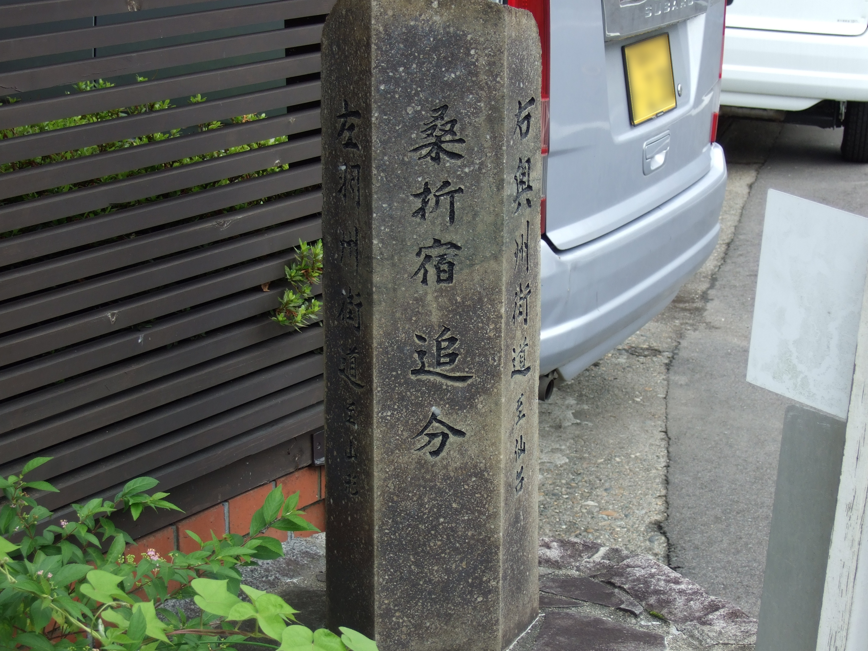 Signpost at the Koori Oiwake junction in Koori Town, Fukushima Prefecture, Japan